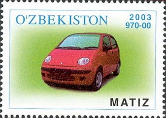 Stamps of Uzbekistan, 2003